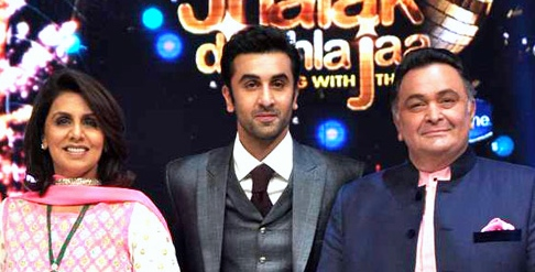 Indian actor Ranbir Kapoor with his parents Rishi Kapoor and Neetu Singh at a promotional event of Besharam on Jhalak Dikhhla Jaa in 2013